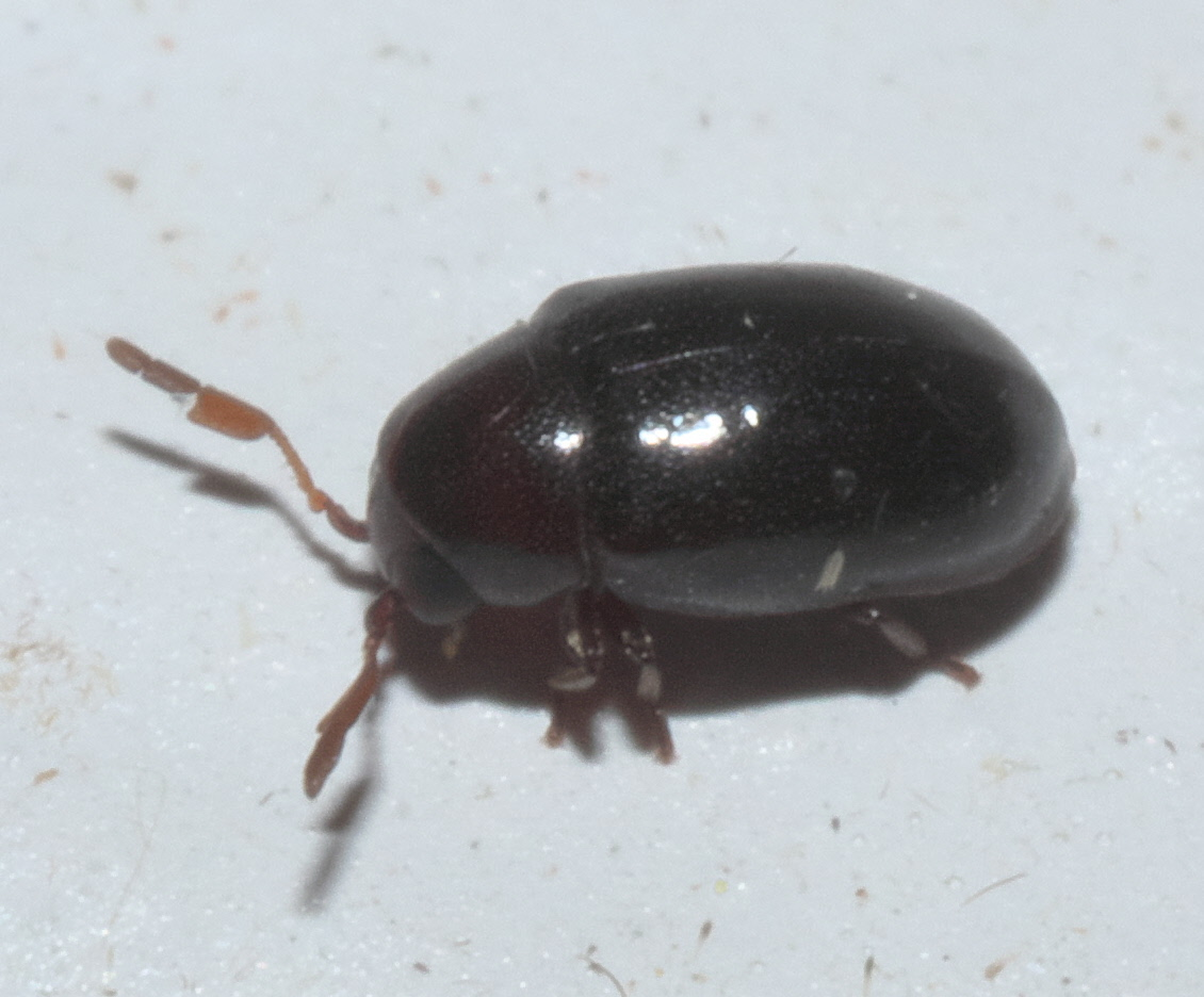 Calymmaderus nitidus, Family: Death-watch and Spider Beetles, Size: 2.4 mm, ID Confidence: 98